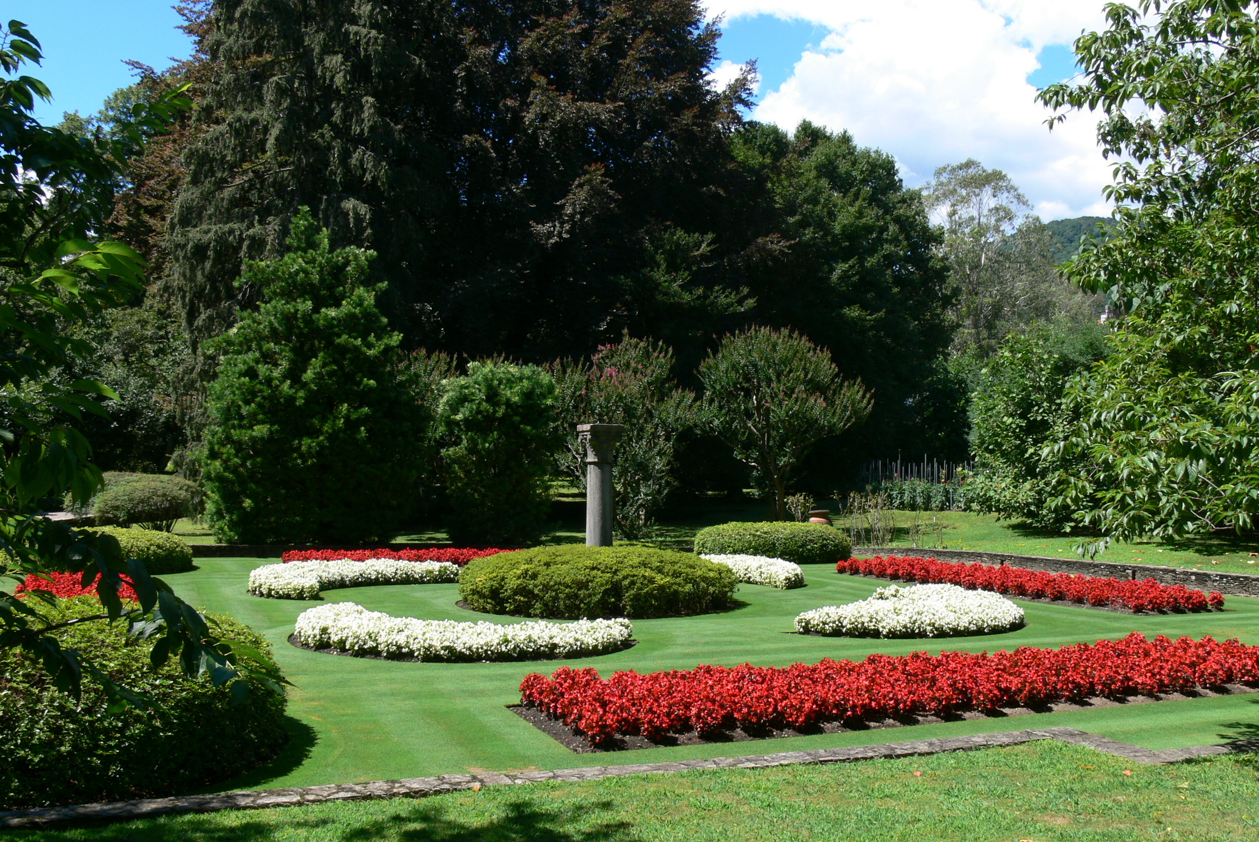 Villa Taranto ( Verbania-Pallanza ). Column in the gardens.